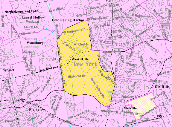 U.S. Census 2000 reference map for West Hills